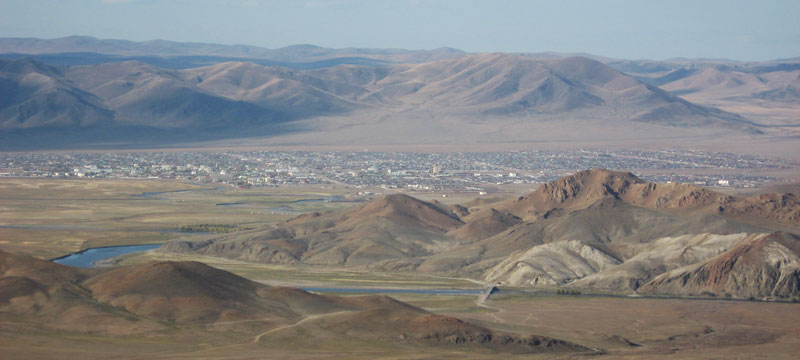 Mörön in 2006, from the south